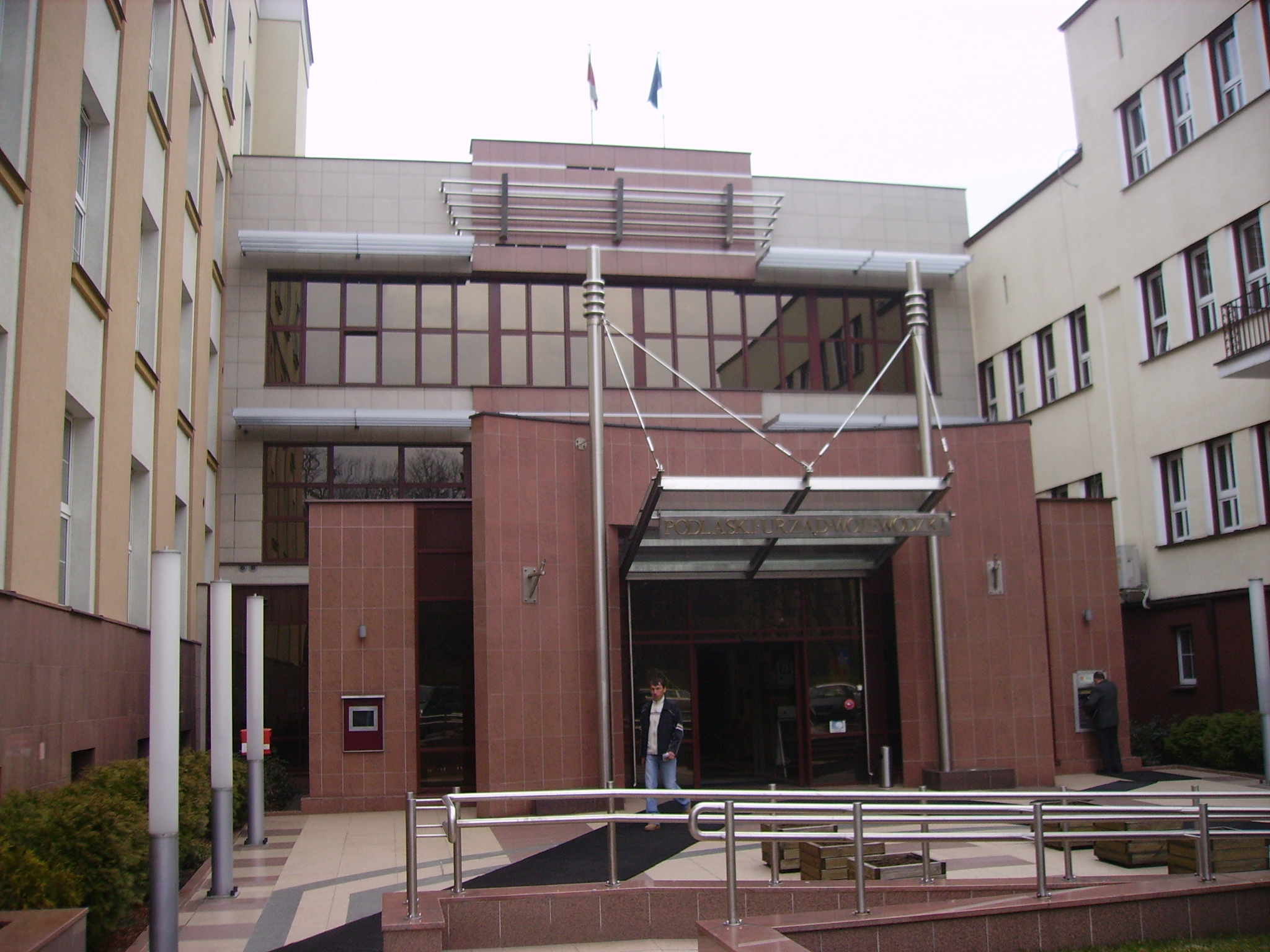 Podlaskie Voivodship Office. Białystok, 3 Mickiewicza St.